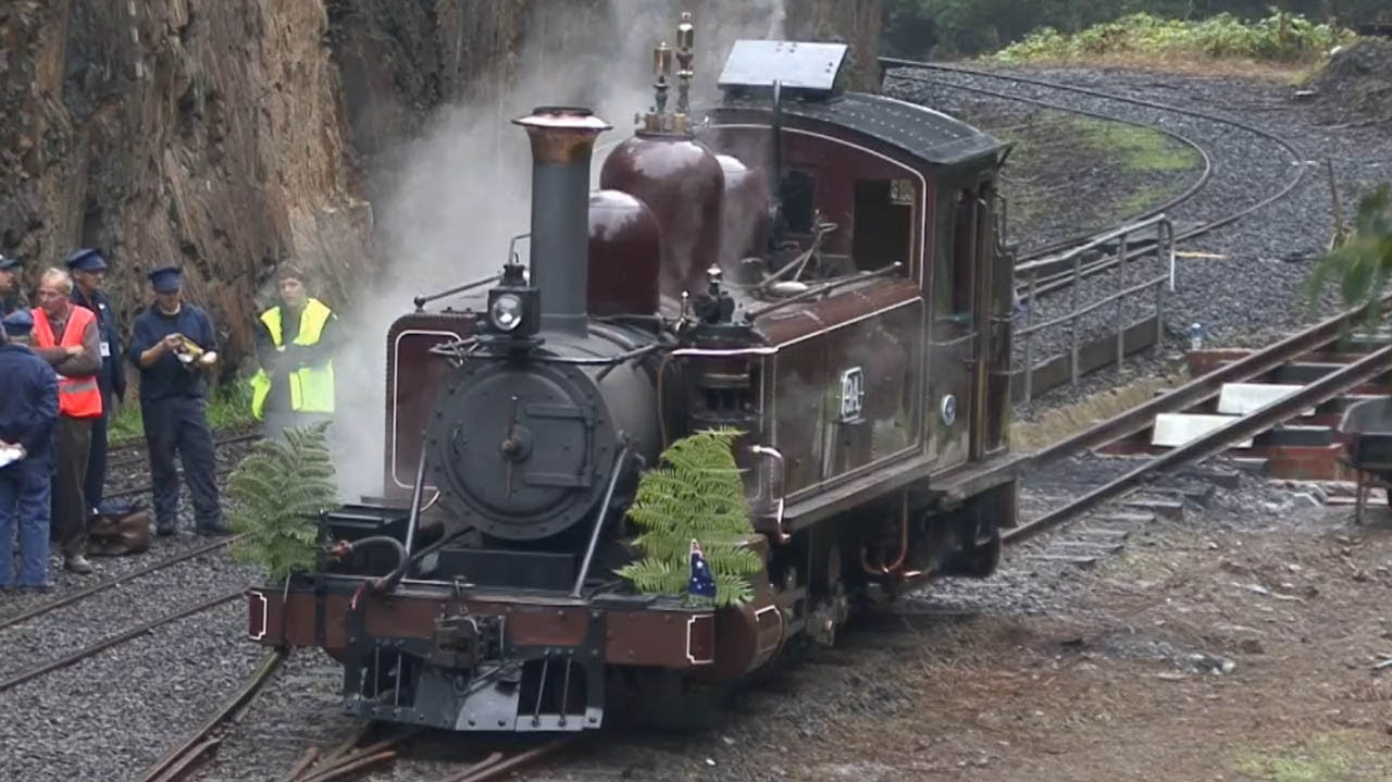 7A After arriving at walhalla in 2010 using G41's Whistle